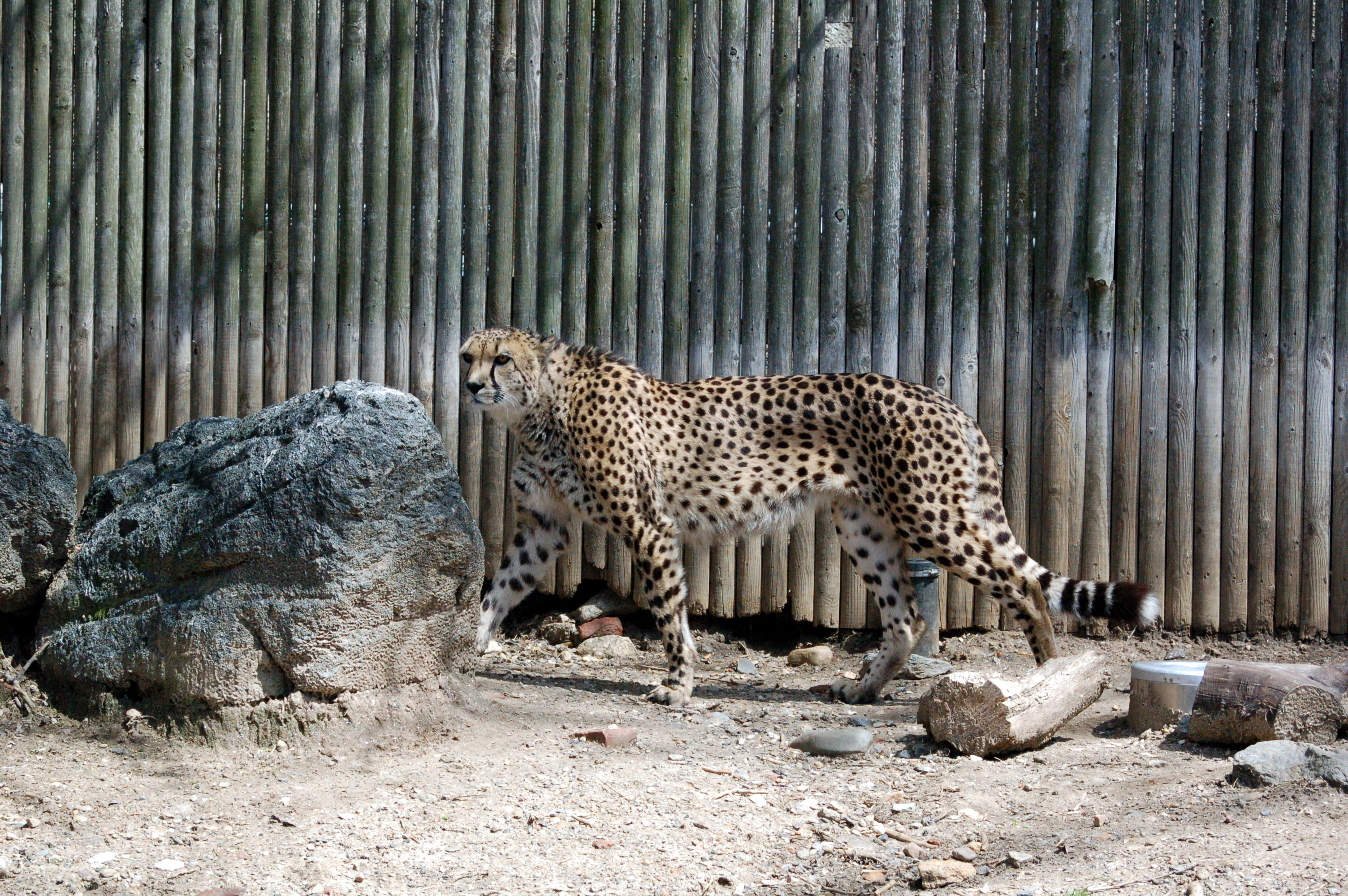 Cheeta at Philadelphia Zoo.